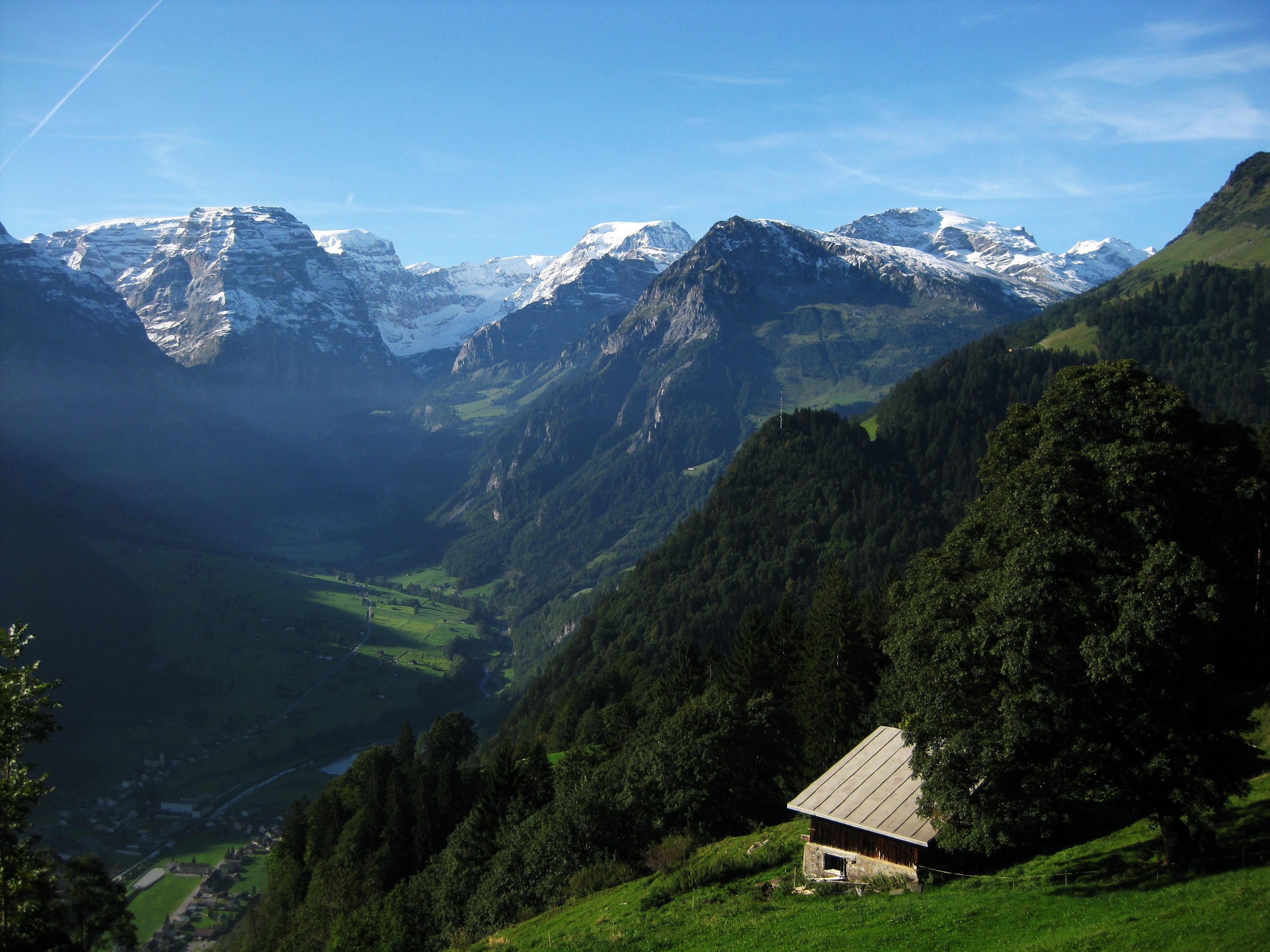 View from Braunwald, Switzerland